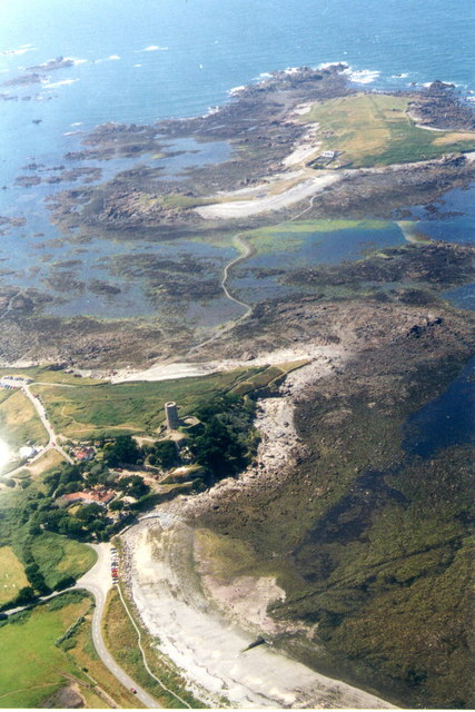 L'Eree headland and Lihou island and causeway. Taken from a Cessna 150 G-AVUH.